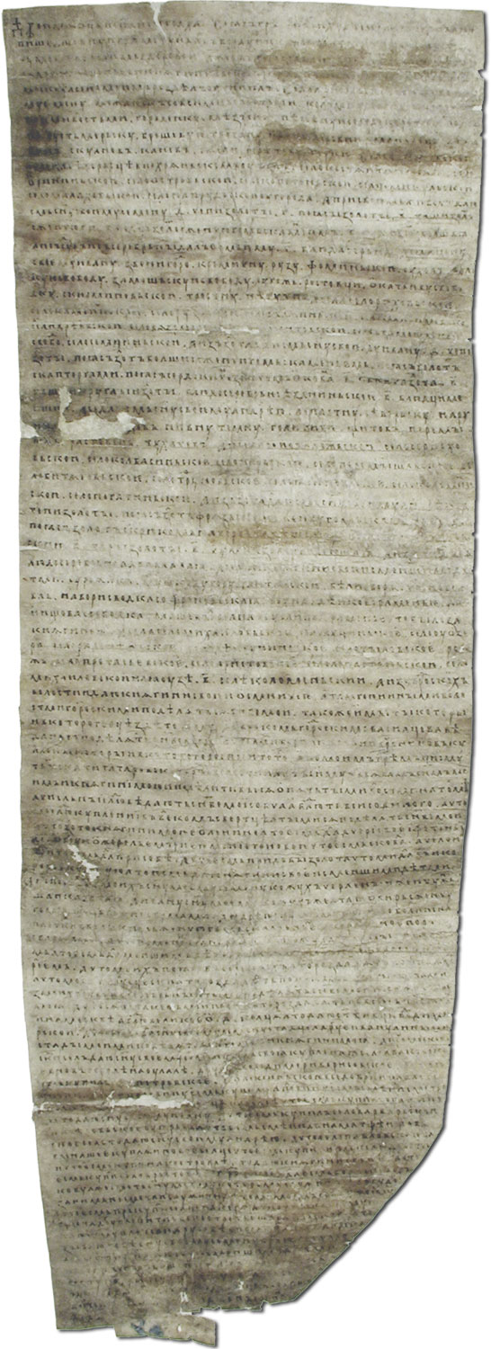 Testament of Ivan I of Moscow, approx. 1339